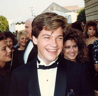 The image of actor Jason Bateman at the 39th Annual Emmy Awards